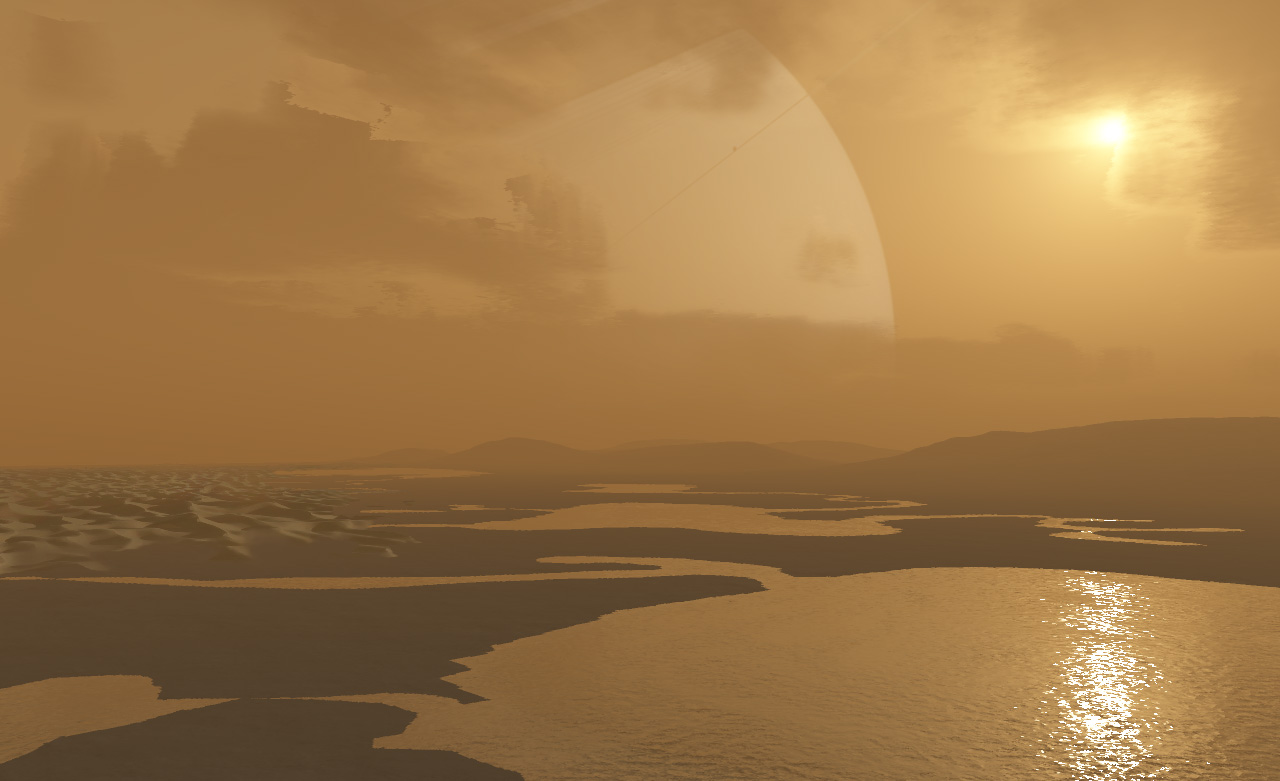 another view from titan. made by me user debivort july 2006 See talk page for comments on the inaccuracy of the image.